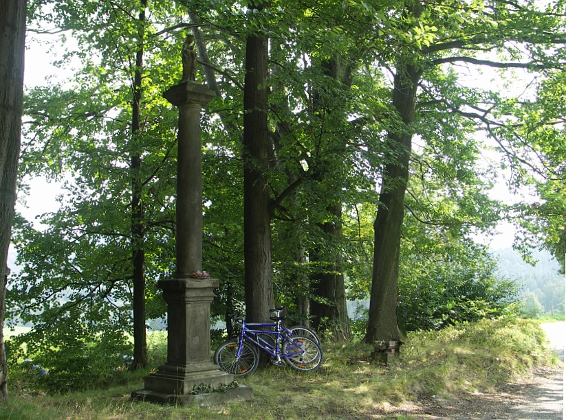 Column of Maria in Travnik (Glasert), Czech Republic